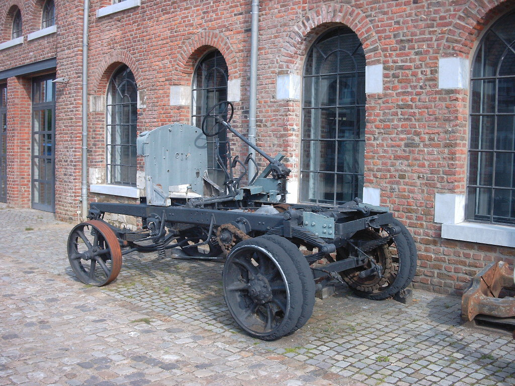 Stolberg (Rhld), Museum Zinkhütter Hof, ladder chassis of a 1910 build Mannesmann-MULAG truck: the steering wheel was later positioned backwards, because the truck was used as a crane truck, during the 2015 reconstruction it got back its original steering position